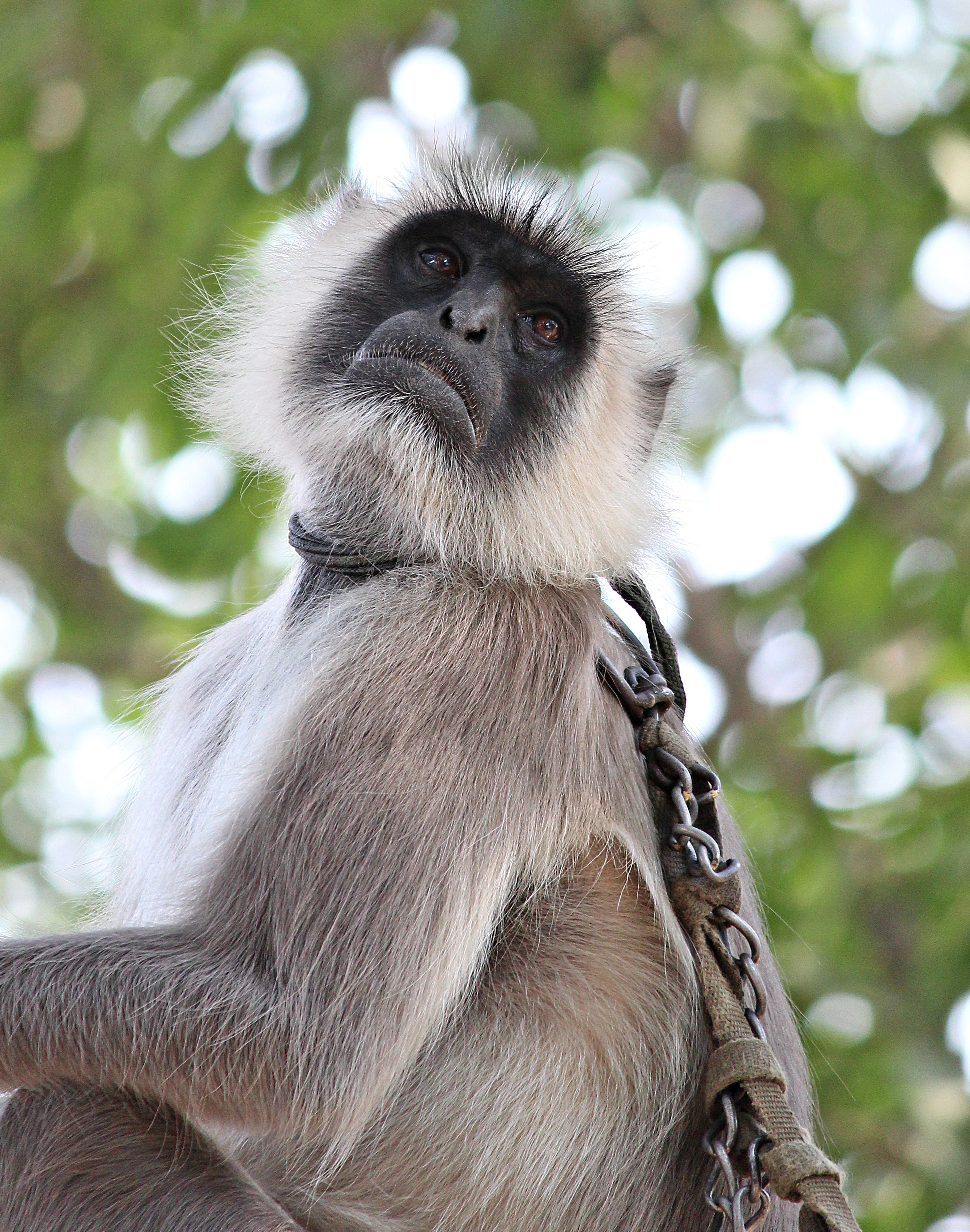 A Pet Colobinae is waiting for his master to come and feed.